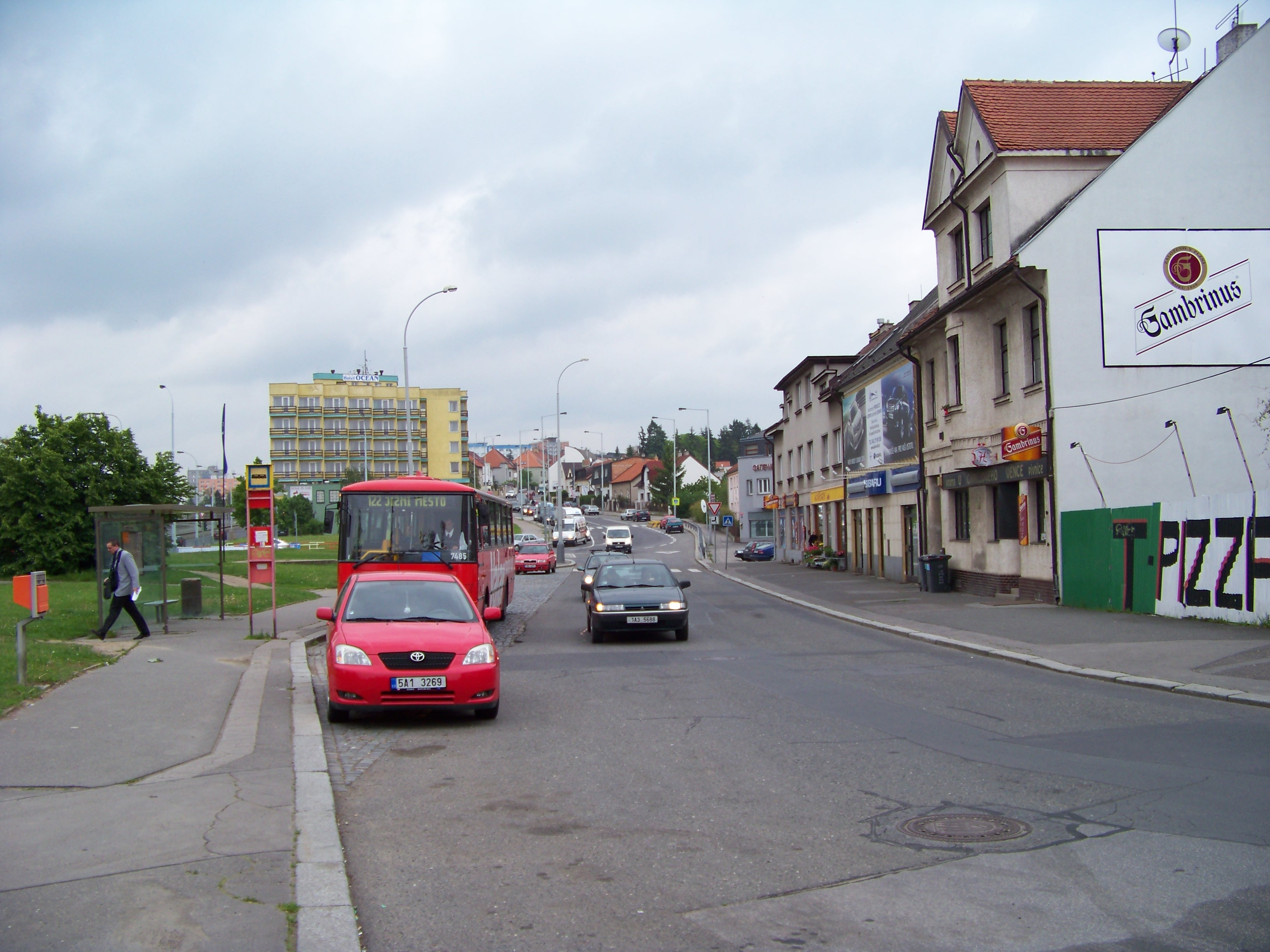 Hostivař, Prague, the Czech Republic. Hostivařská street, Hornoměcholupská street.